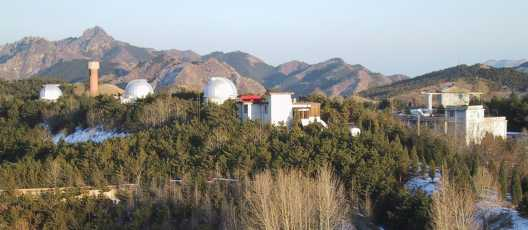 This was taken from the Dutch Meteor Society webpage at They are NOT copyrighted.